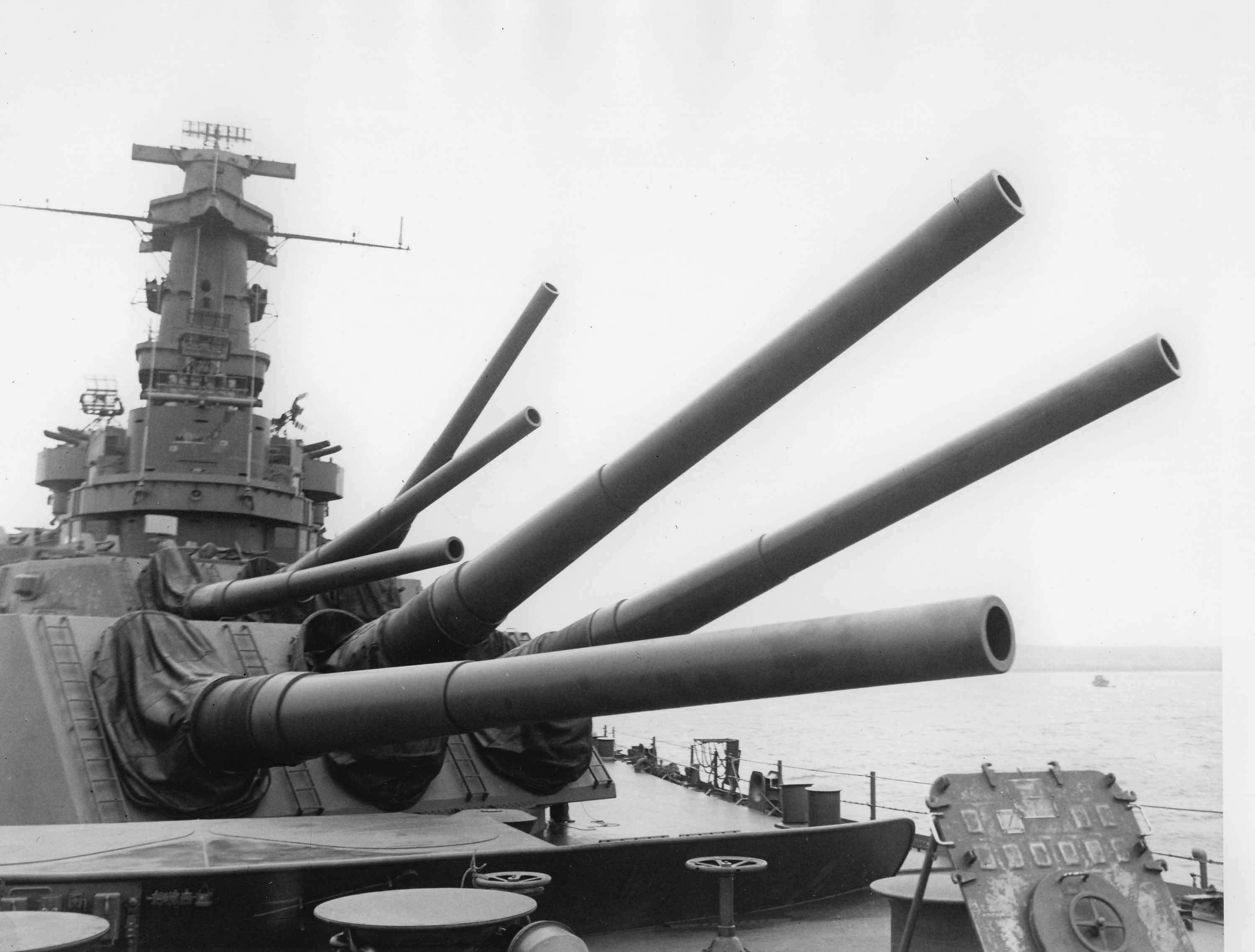 The South Dakota (BB-57) at Scapa Flow in 1943.